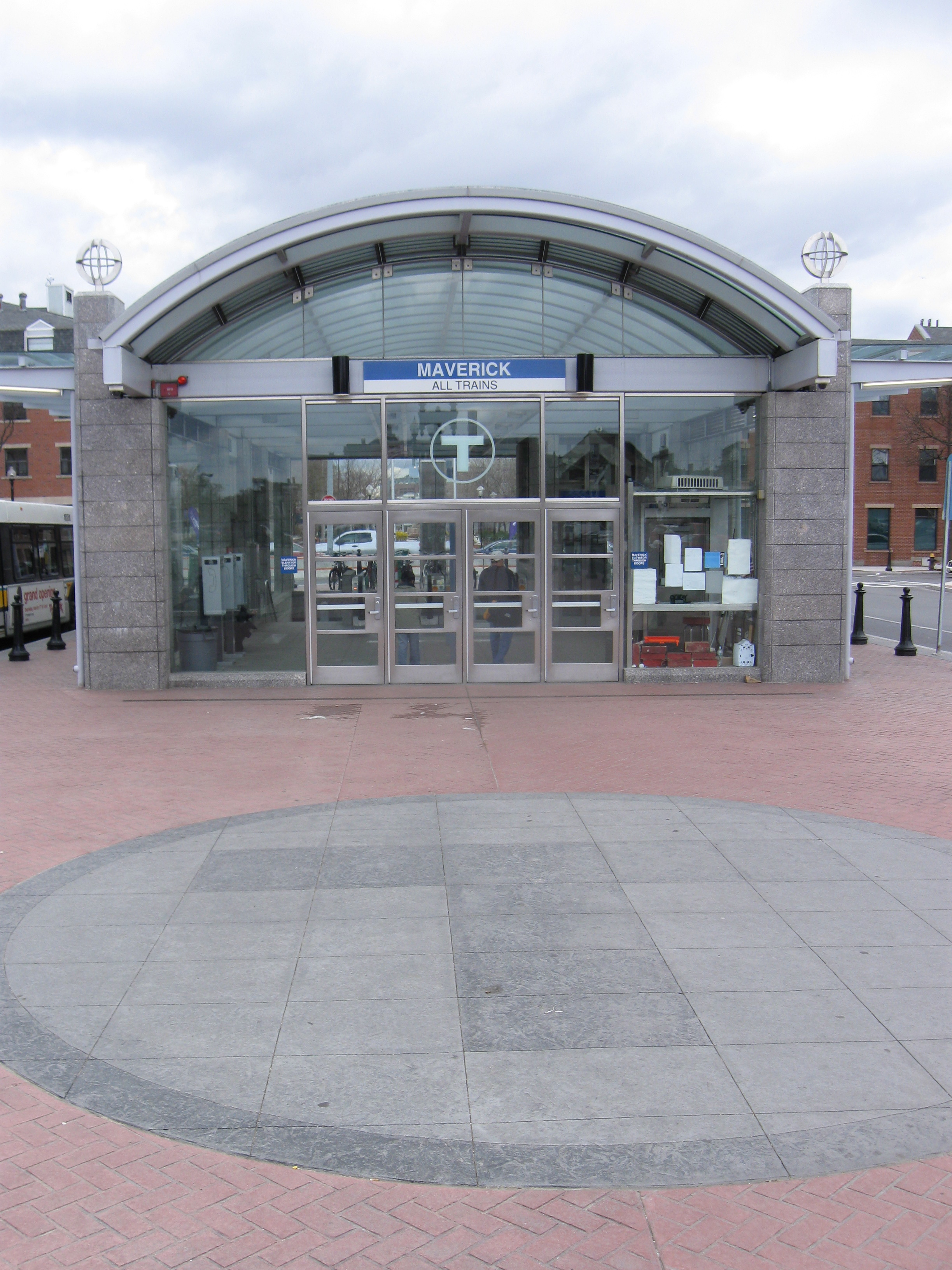 Maverick MBTA station